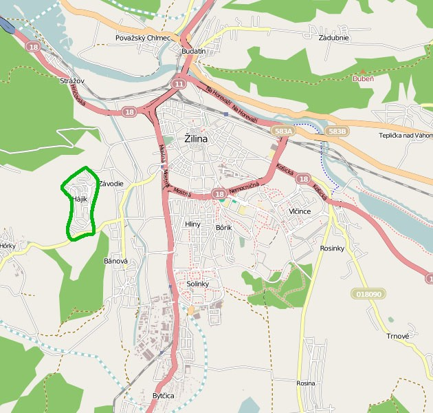 Zilina-Hajik map location